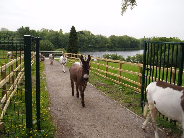 The Elizabeth Svendsen Trust for Children and Donkeys. Back to the stables after a day out in the paddocks. The Gorton Lower reservoir in the background and Debdale Park beyond that though the trees.